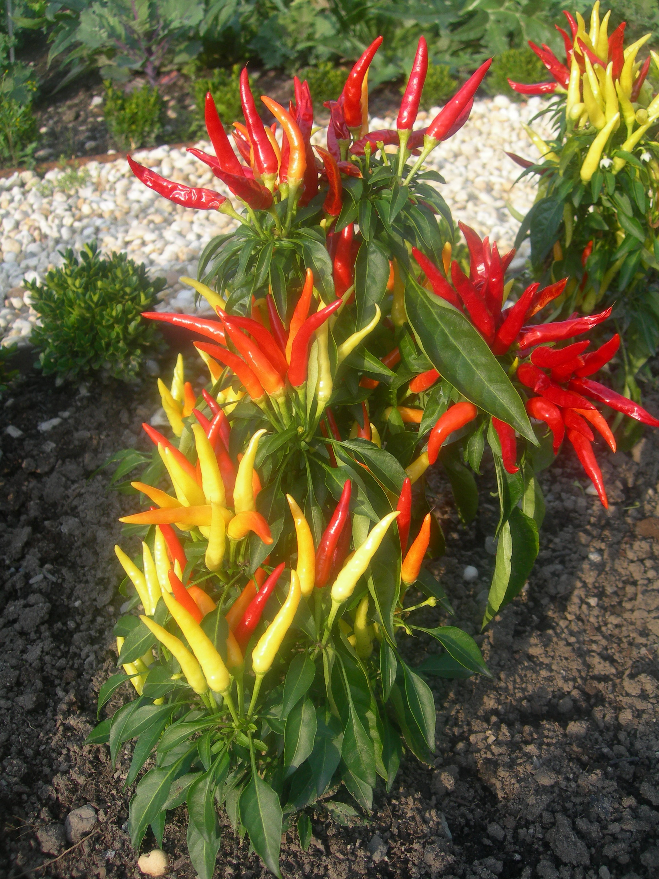 Chile pepper